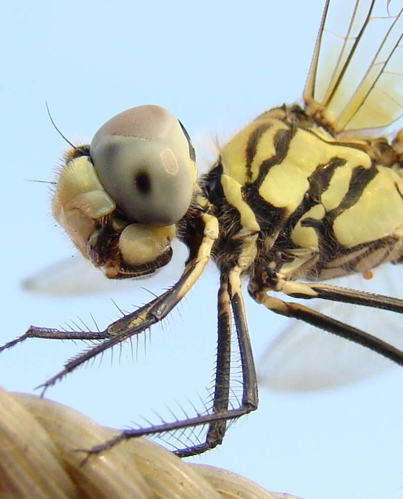 Dragonfly